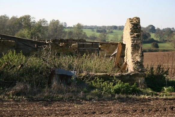 Broken down old barn in field near Dadford, Bucks